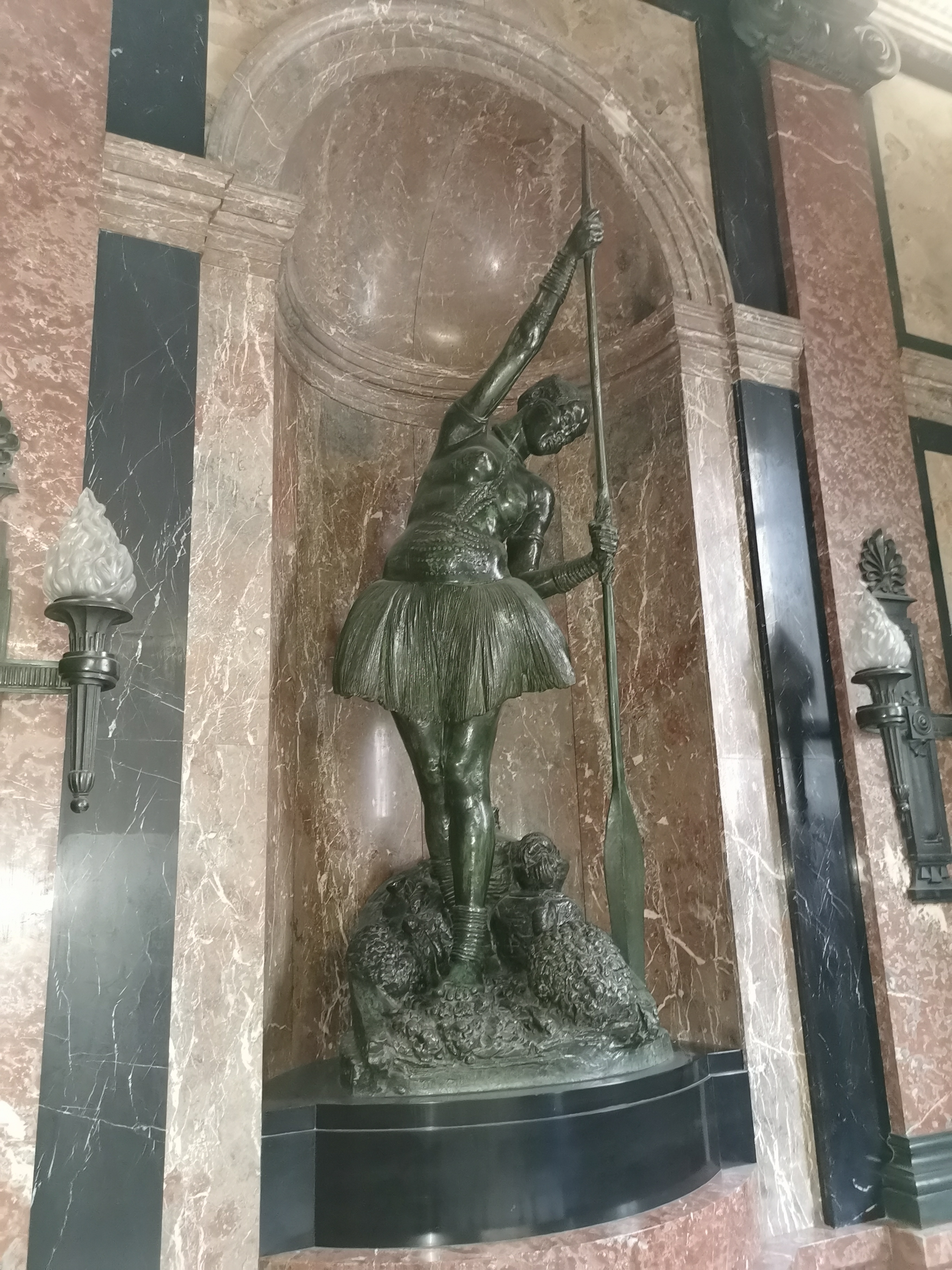 Bronze statue of a Congolese woman (c. 1920) by Isidore De Rudder in the Entrance hall of ISIB in Brussels (former Lever House)